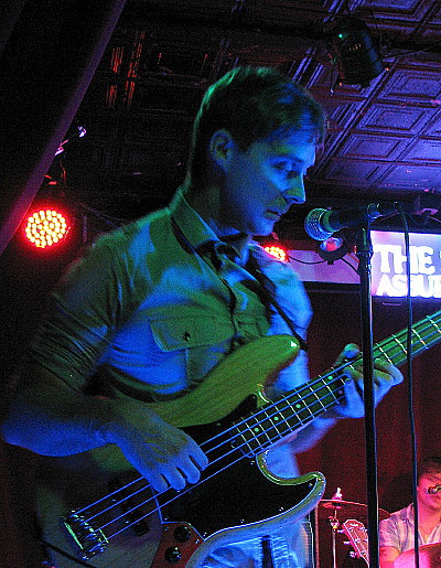 Rob Clayton of the The Dunwells playing at The Saint in Asbury Park, NJ 07212013. Photo by LHCollins.